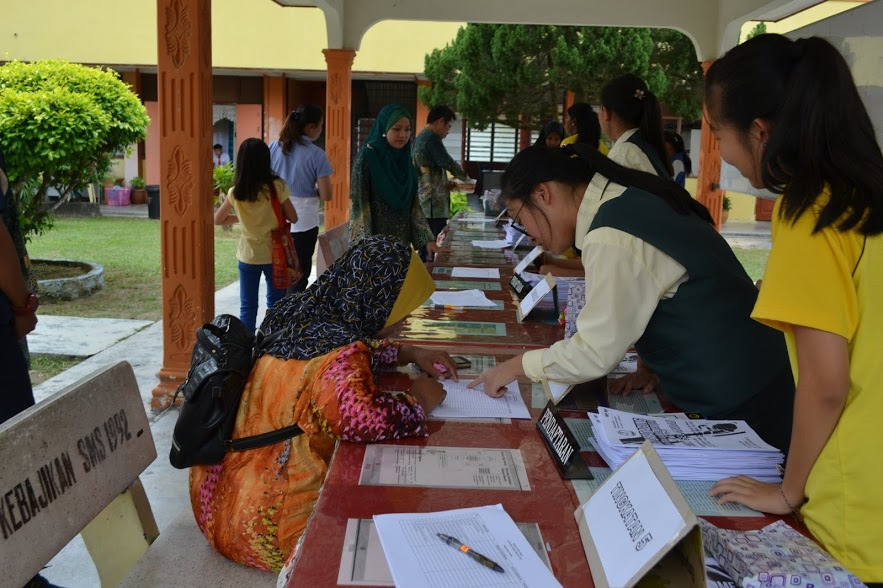 GAMBAR 4